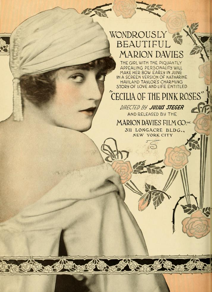 Advertisement in Moving Picture World, May 1918 for the American film Cecilia of the Pink Roses (1918) with Marion Davies.